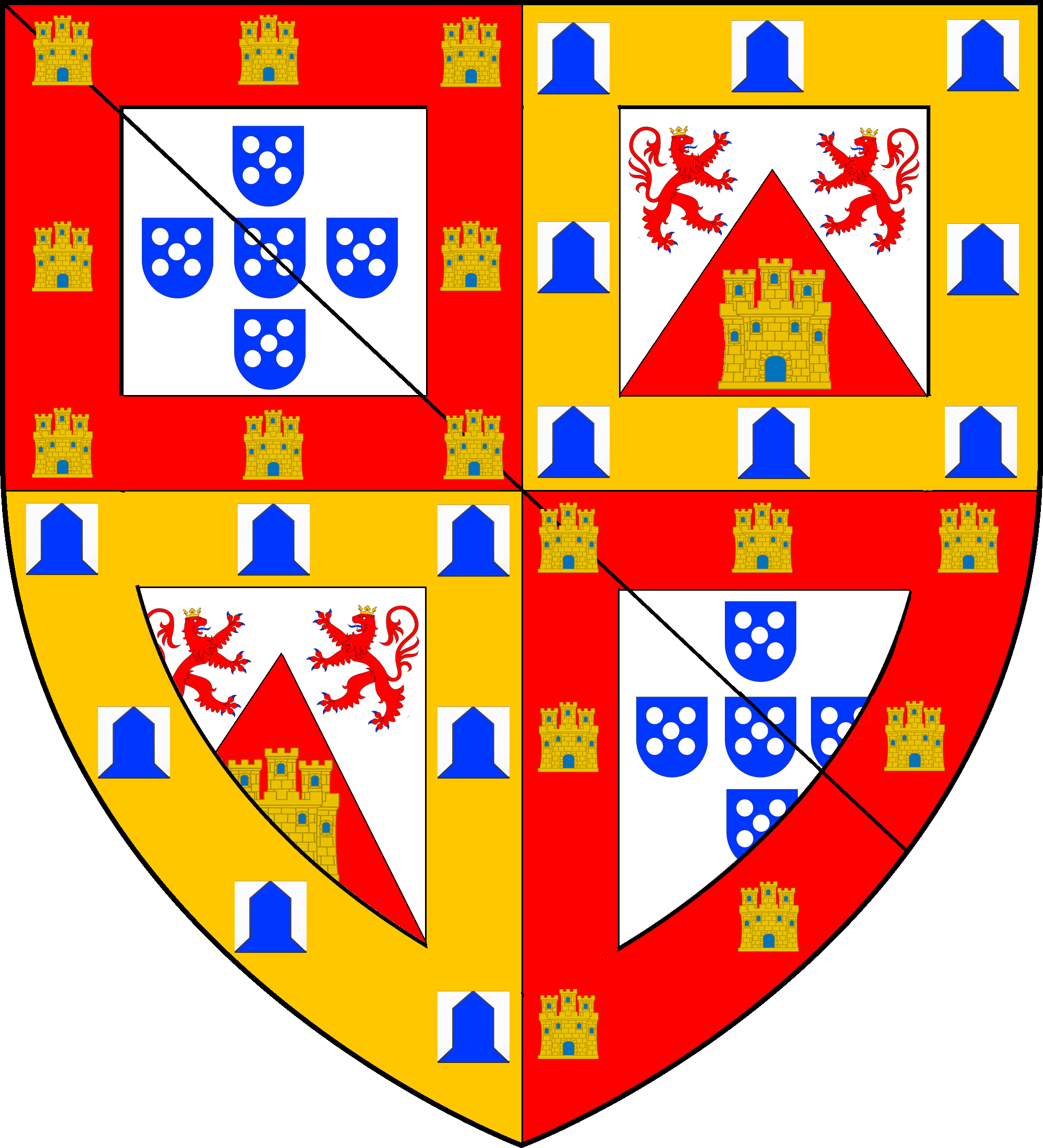 Escudo de Armas de la Casa Noronha, condes de Odemira, duques de Linhares....